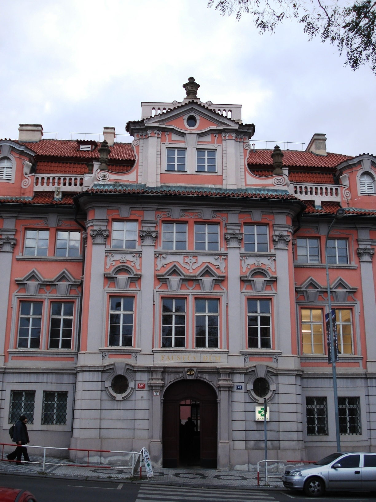 Faust's house, Karlovo náměstí, Prague.